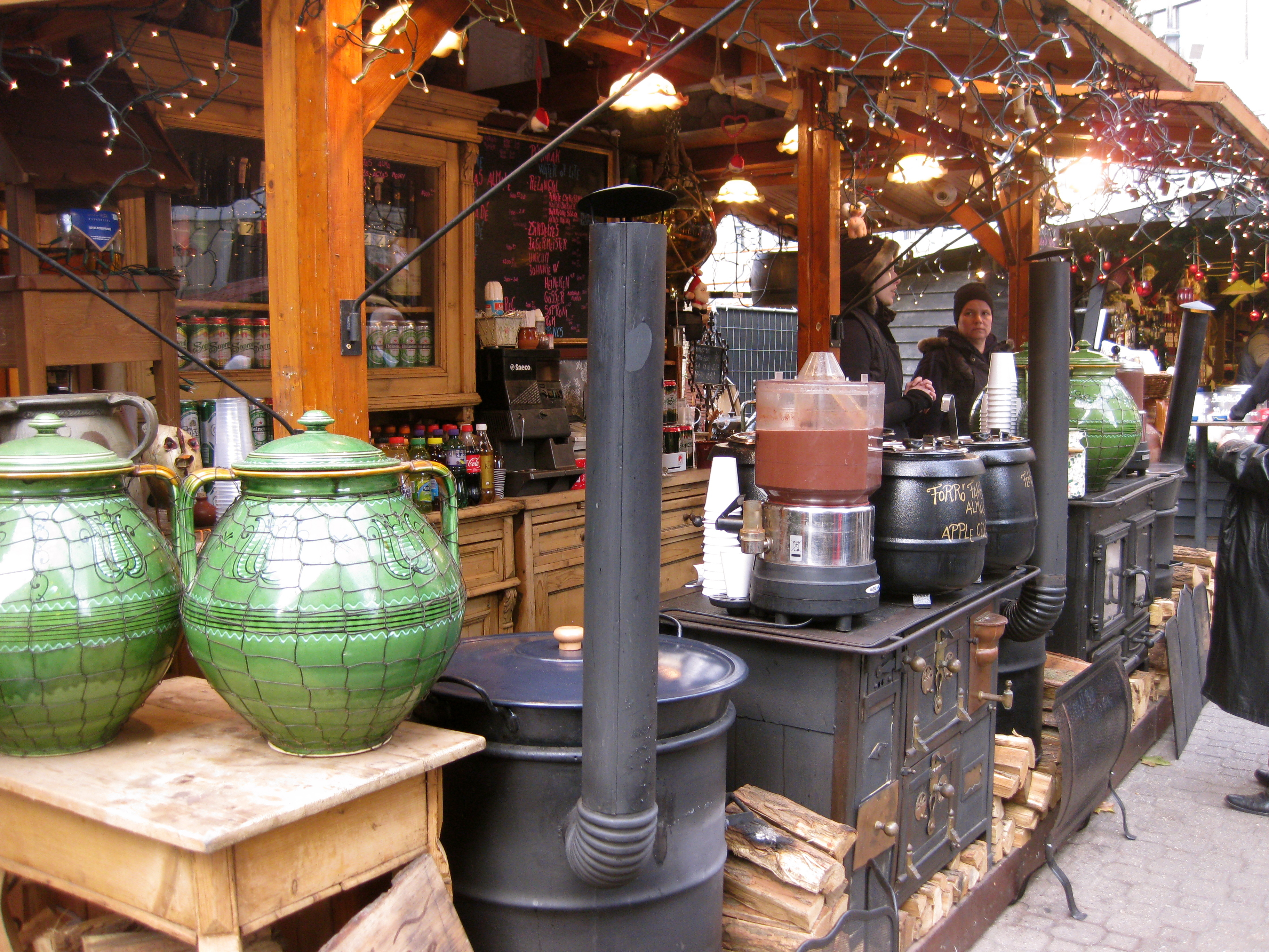 2012 Christmas market at Vörösmarty Square, Budapest.